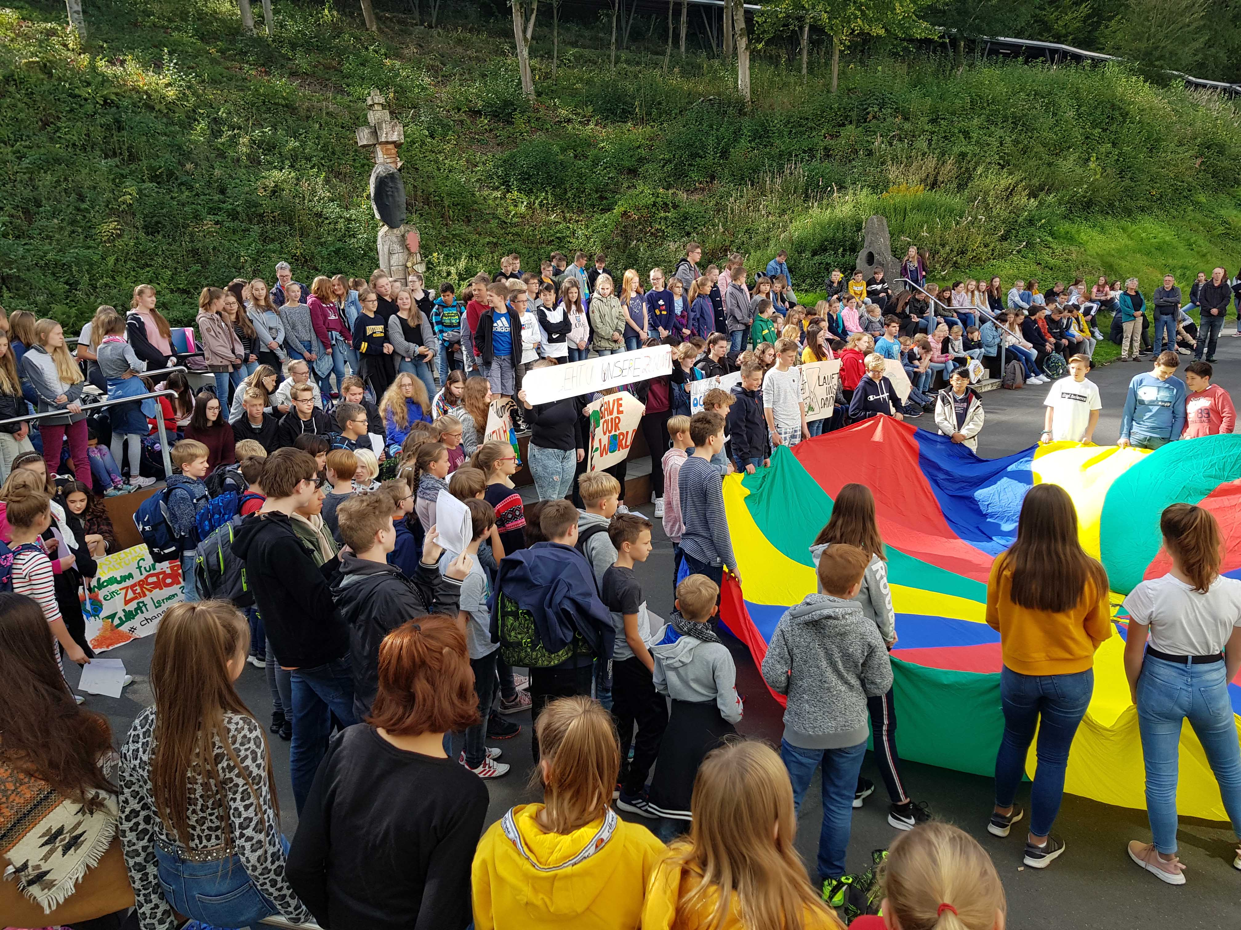 friday for future in Marienstatt